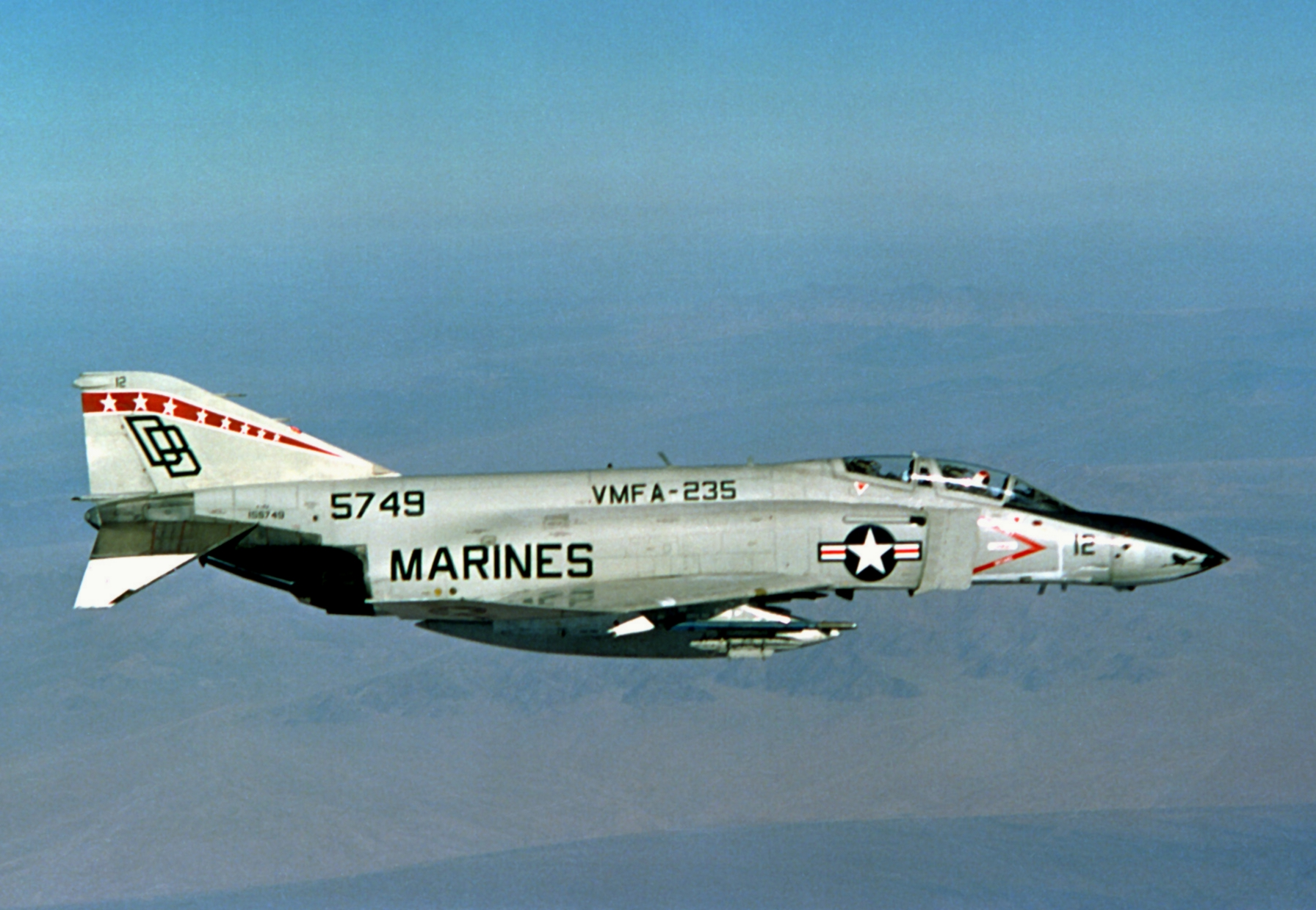 A U.S. Marine Corps McDonnell F-4S Phantom II aircraft (BuNo 155749) from Marine Fighter-Attack Squadron 235 (VMFA-235) Death Angels in flight near Naval Air Station Whiting Field, Florida (USA), in 1982. The F-4J 155749 was credited with MiG-17 kill on 10 May 1972 while in service with U.S. Navy Fighter Squadron VF-96 Fighting Falcons. It was converted to an F-4S in 1979, later again to an QF-4S drone. It crashed at the NAS Point Mugu Air Show on 20 April 2002. Both crew ejected, but the hit ground before their chutes could open and were killed.